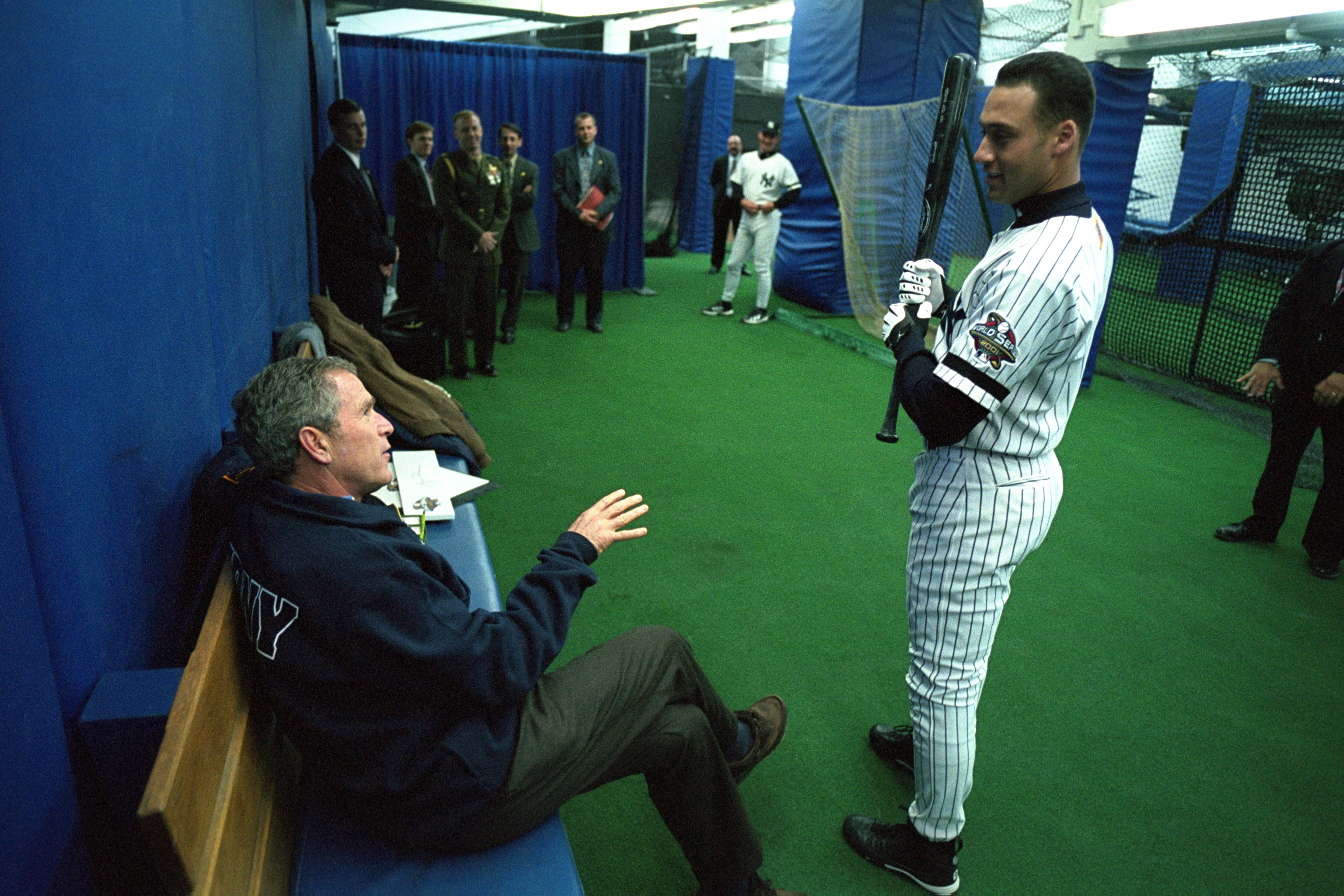 Original Caption: President George W. Bush talks with Yankee shortstop Derek Jeter before throwing out the ceremonial first pitch in Game Three of the World Series between the Arizona Diamondbacks and the New York Yankees at Yankee Stadium in New York. U.S. National Archives’ Local Identifier: P9153-19A Created By: President (2001-2009 : Bush). Office of Management and Administration. Office of White House Management. Photography Office. (01/20/2001 - 01/20/2009). Photographed by Eric Draper From: Photographs Related to the George W. Bush Administration, compiled 01/20/2001 - 01/20/2009 Production Dates: 10/30/2001 Persistent URL: Repository: George W. Bush Library (Lewisville, TX) Access Restrictions: Unrestricted Use Restrictions: Unrestricted